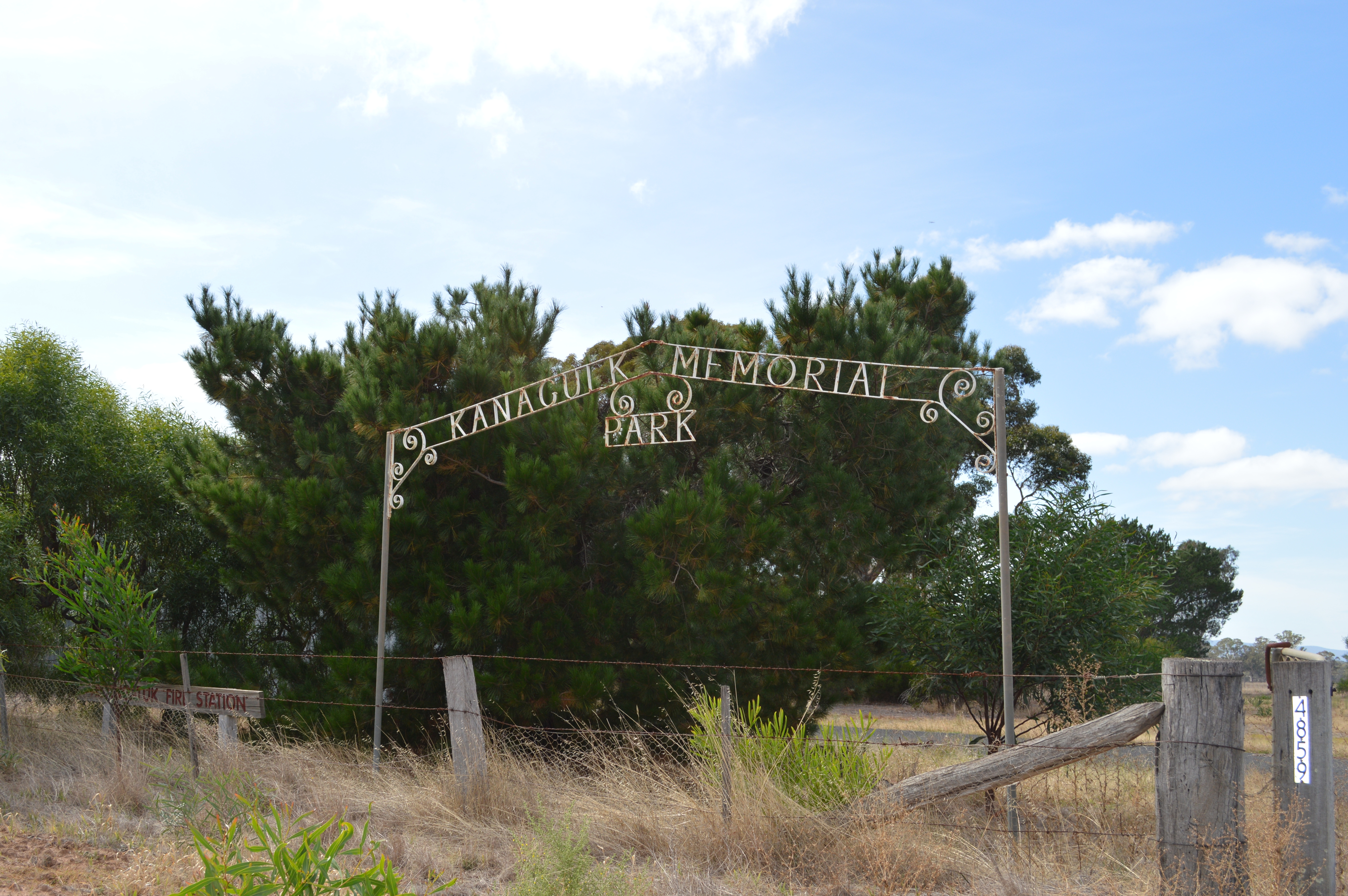 Sign marking Kanagulk Memorial Park at Kanagulk, Victoria